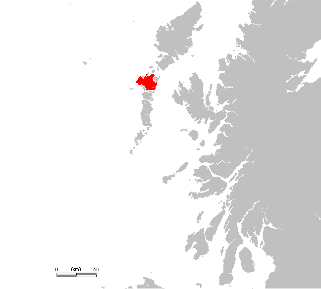 UK North Uist.PNG (Scotland, Hebrides)